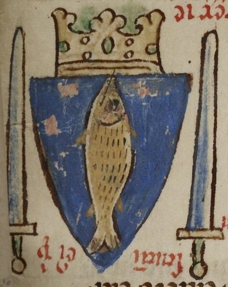 John of Brienne